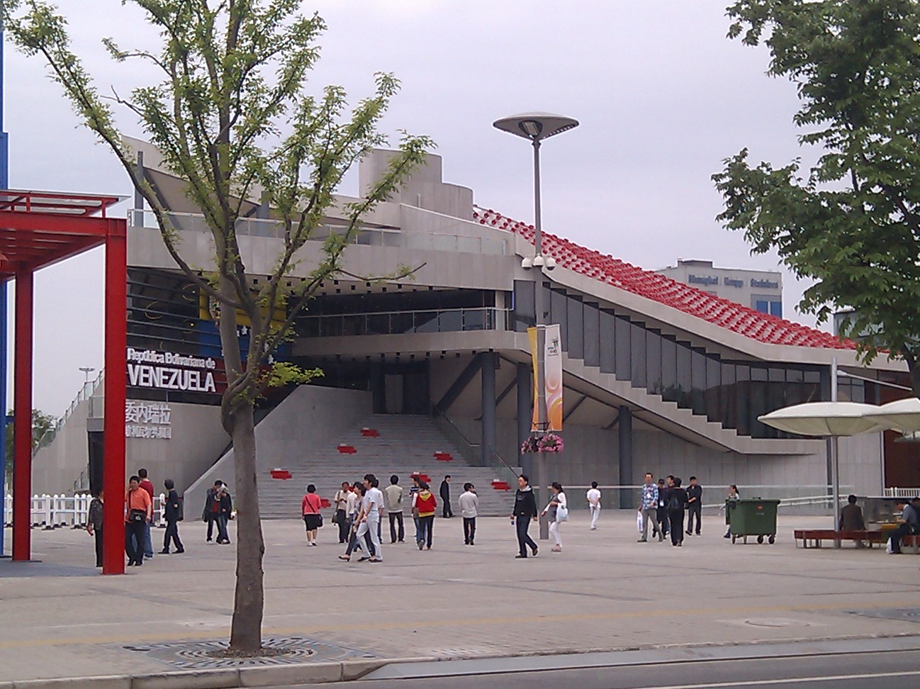 Venezuela Pavilion of Expo 2010